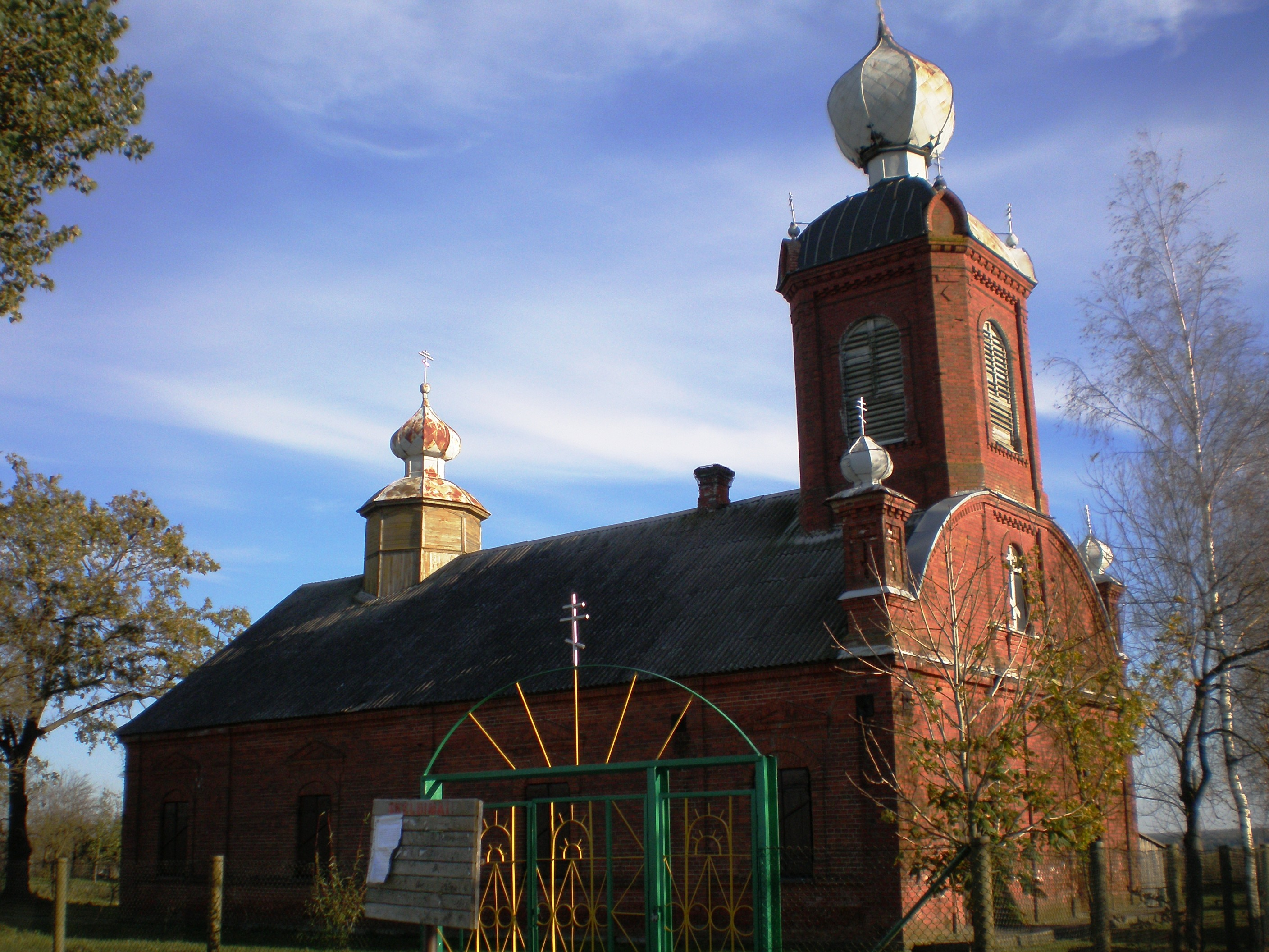 The chrurch of Rimkai, Lithuania